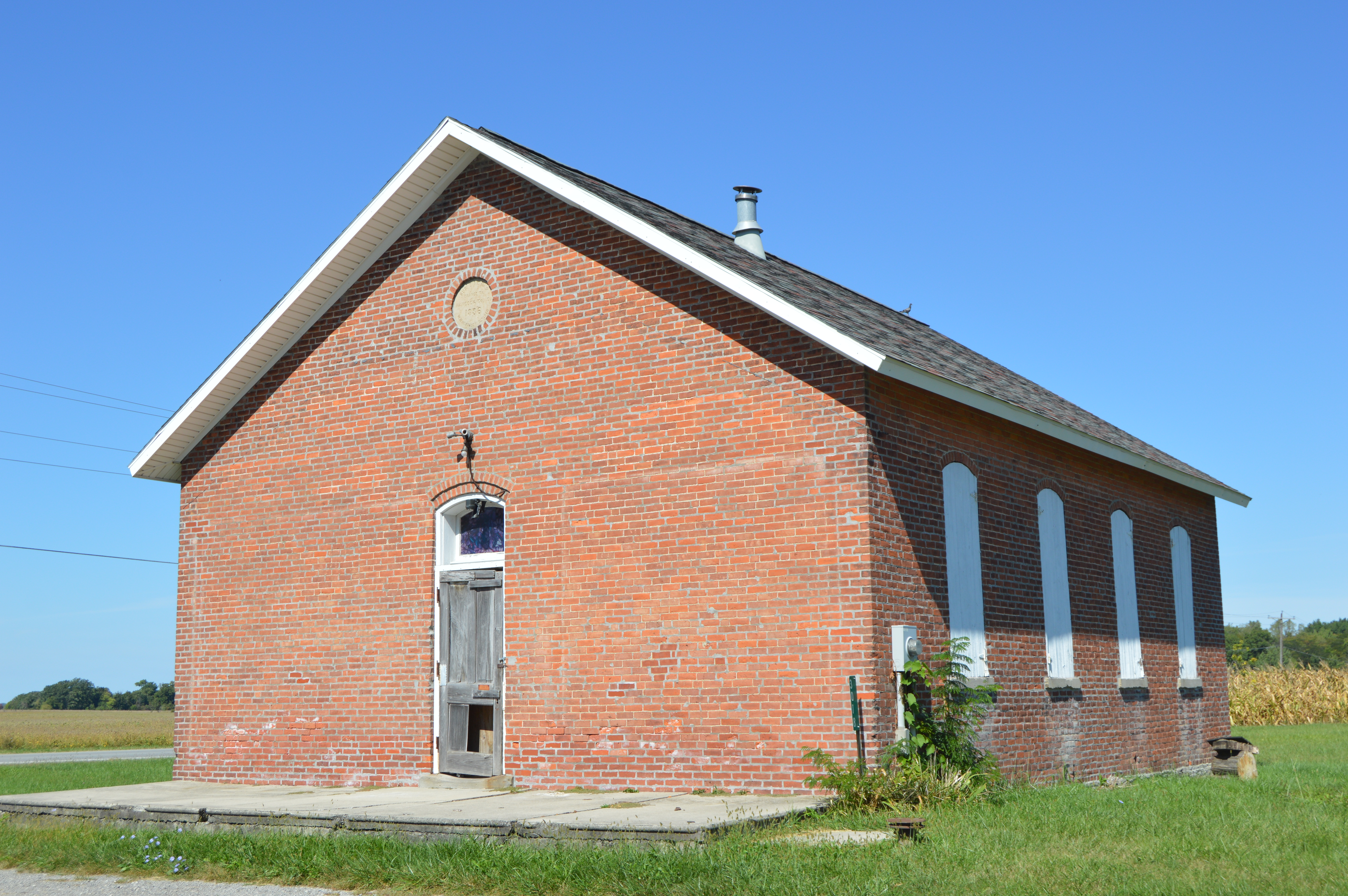 Front and eastern side of the former Orange Township School #2, located on the northern side of State Route 103 just east of State Route 235 in Orange Township, Hancock County, Ohio, United States. It was built in 1886.